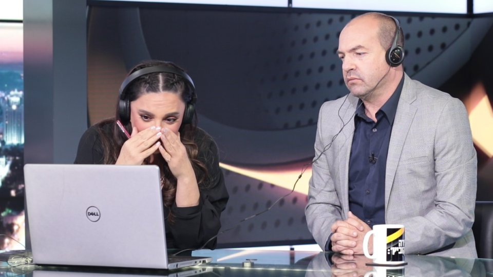 glass walls itay levi ofira and berko